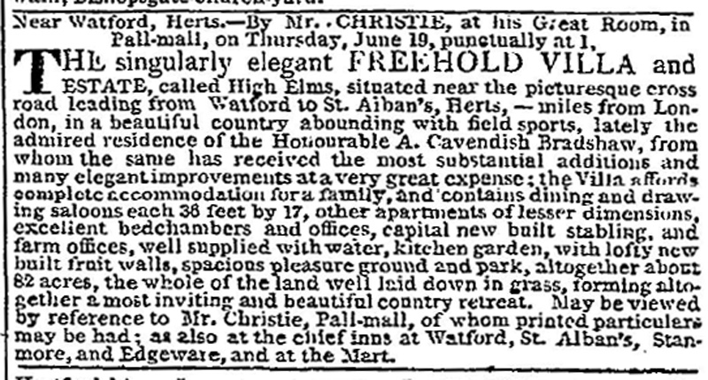 Advertisement for the sale of High Elms (later Garston Manor) near Watford, Hertfordshire